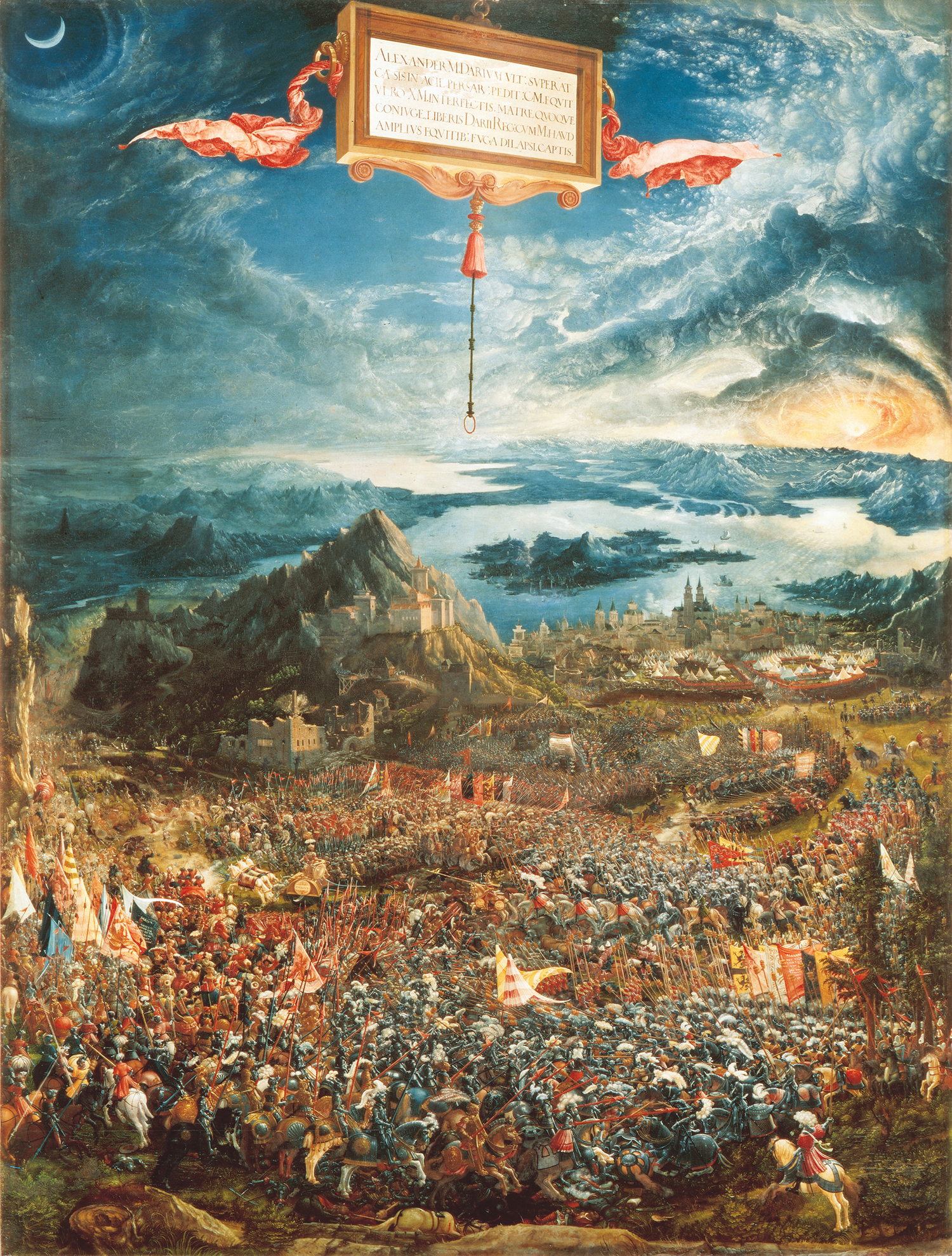 Battle of Alexander the Great against Persian King Darius